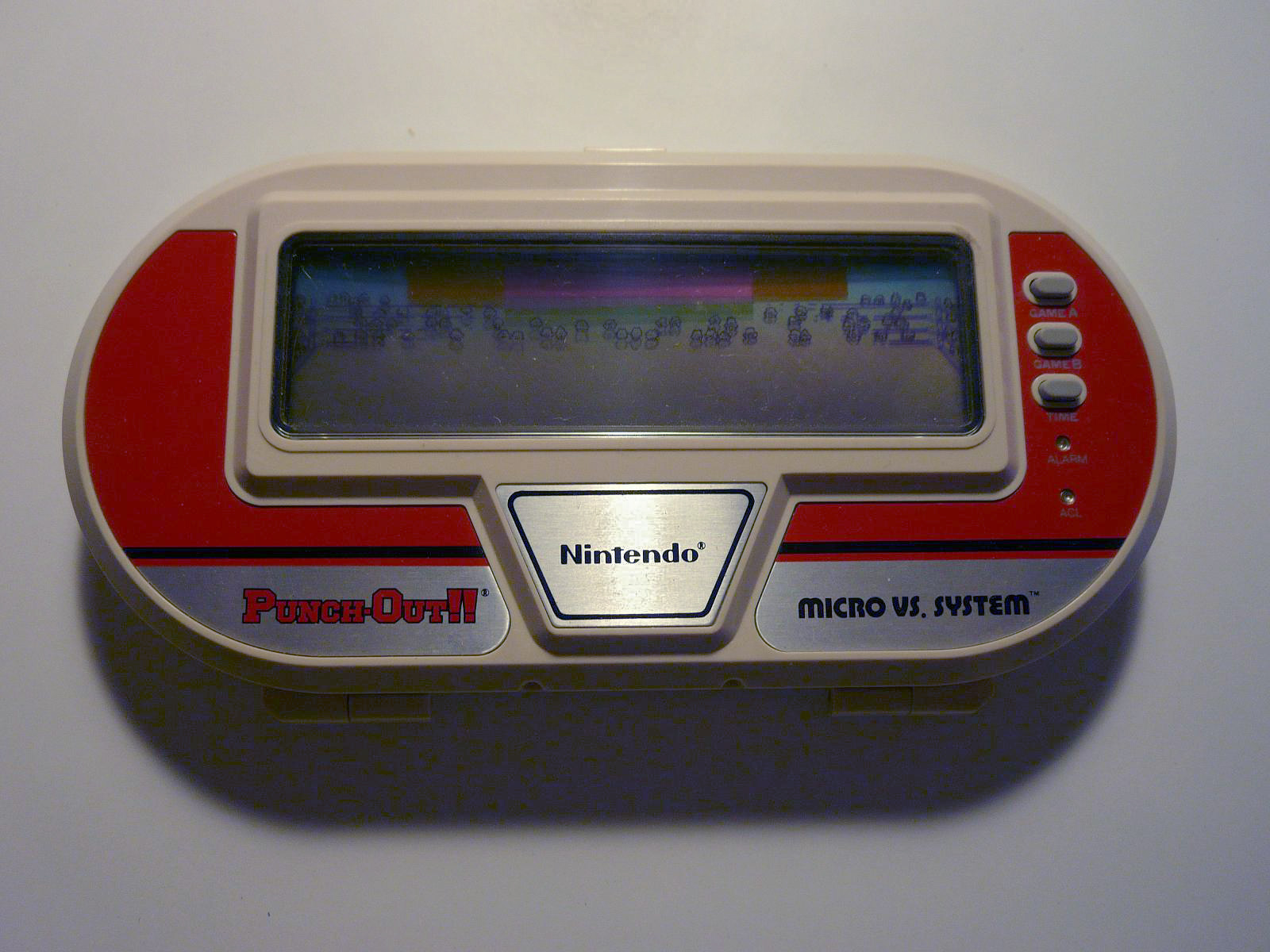 Nintendo Micro Vs. System handheld LCD game Punch-Out!!punch out